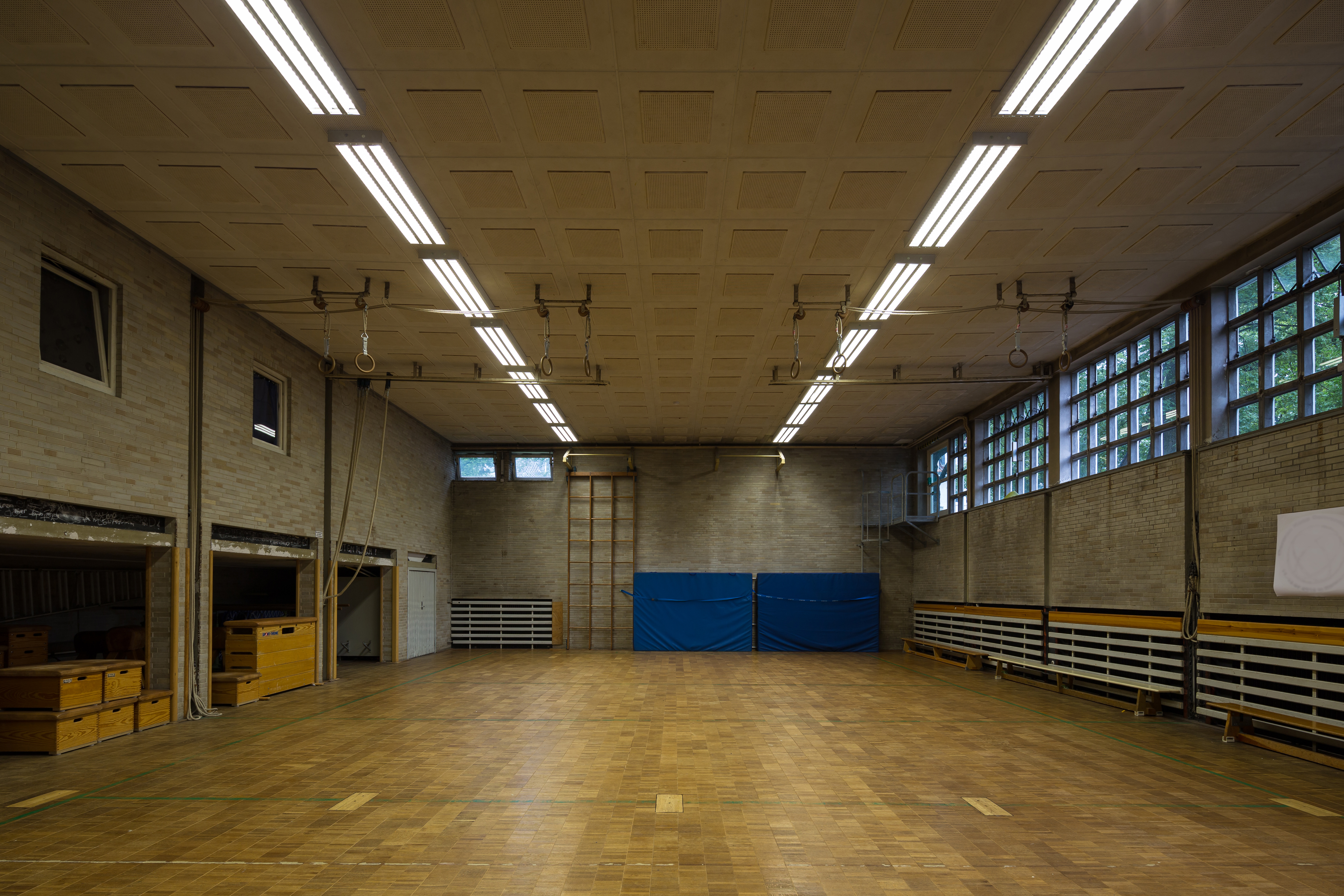 Gymnasium of a German school with some sports equipment visible in background.